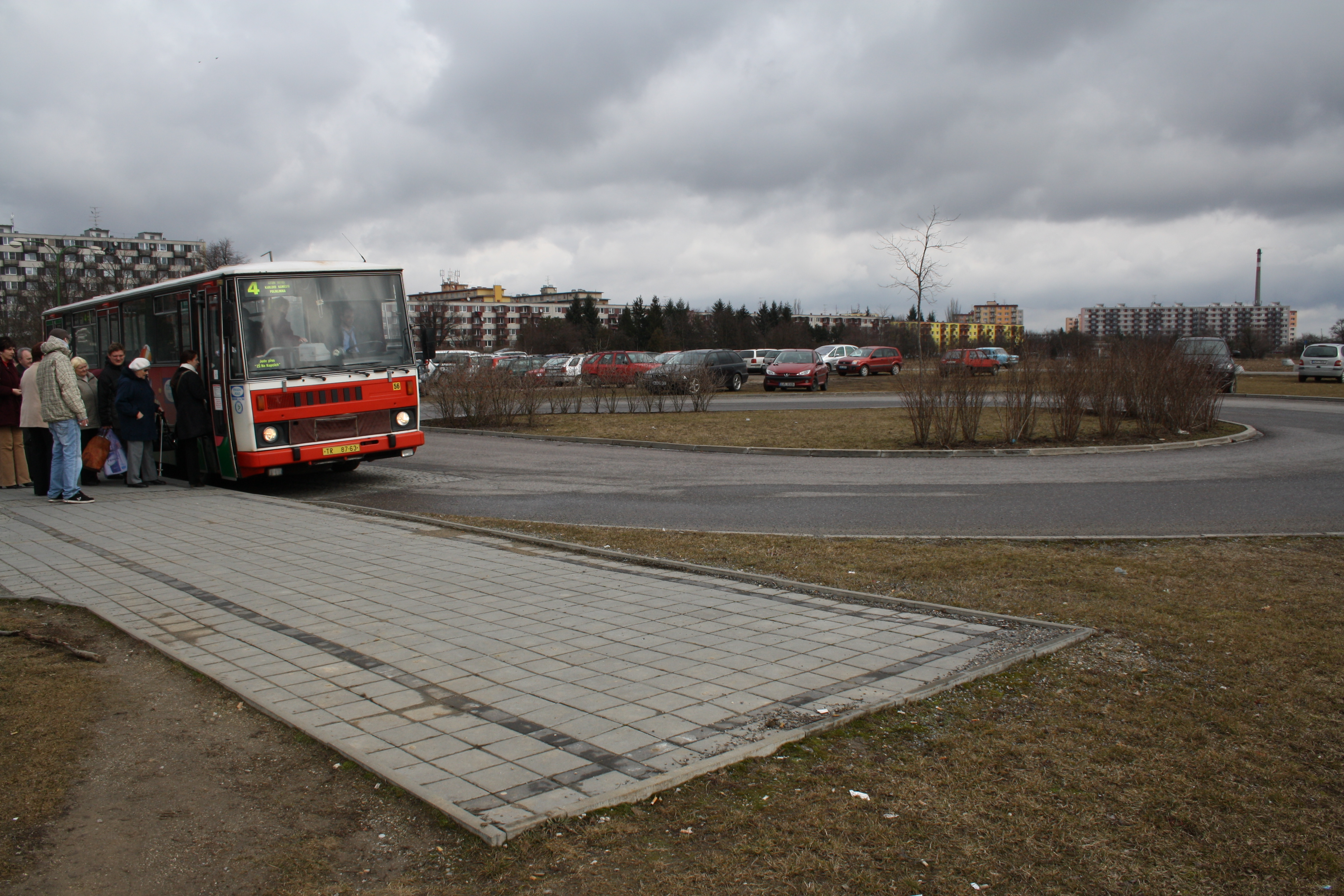 Karosa Bus at bus stop in Třebíč, Czech Republic.